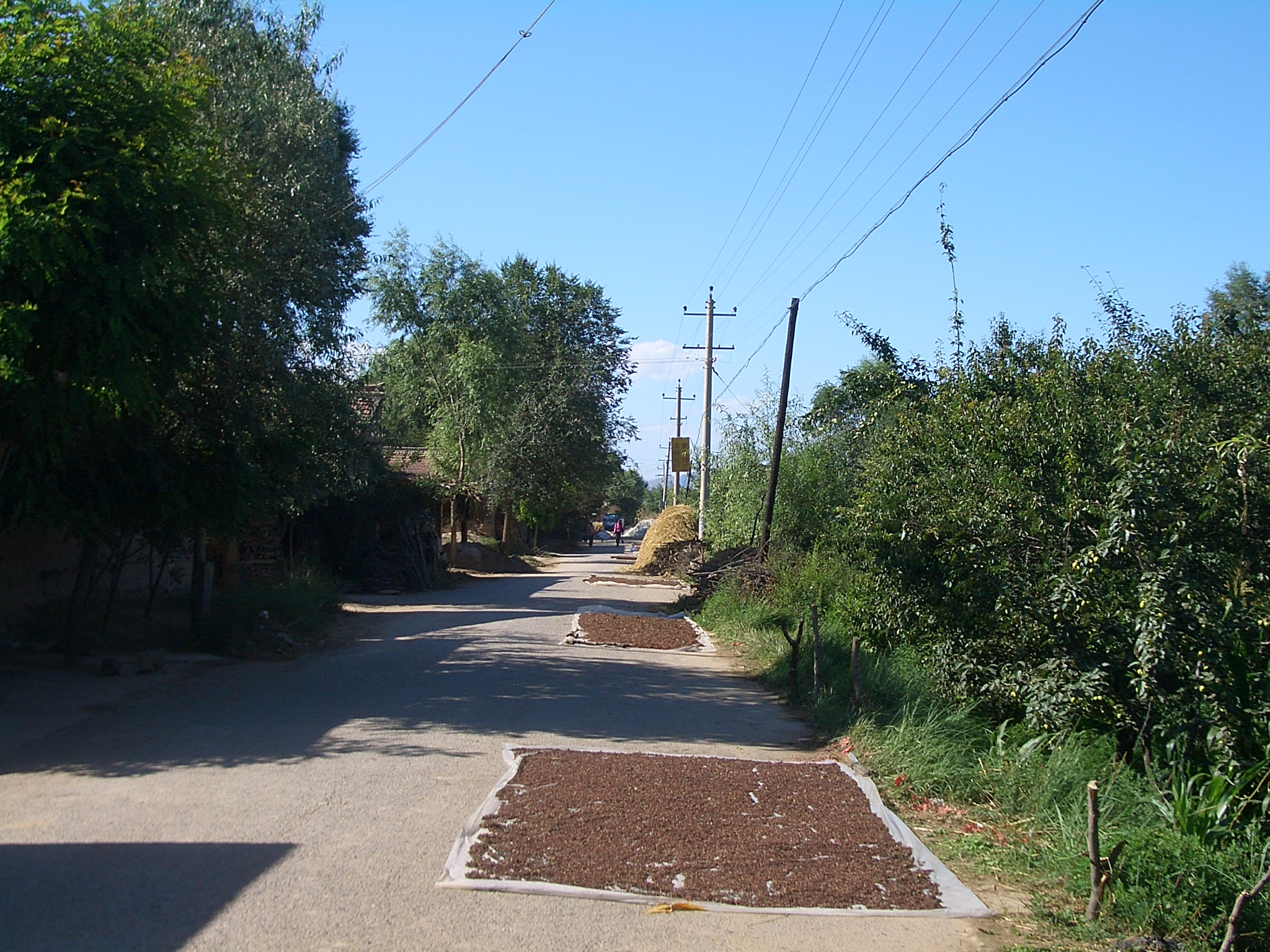 Sichuan pepper (peppercorn-like berries, know locally as 大红袍花椒), recently harvested from shrubs that are commonly grown in the are, are being dried on the road in a village in the northeastern part of Linxia County (probably, Wangjiazui village in Hexi Township).